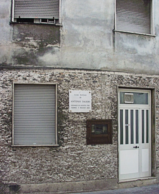 Birth House of Antonio Salieri in Legnago (Veneto)